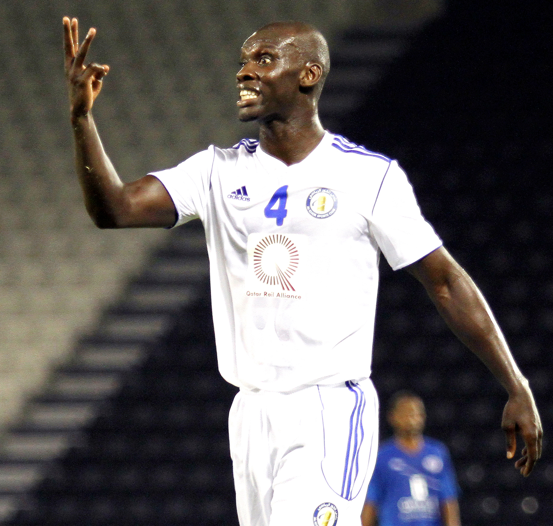 Al Khor's Norwegian professional Pa-Madou Kah gestures during a Qatar Stars league match.